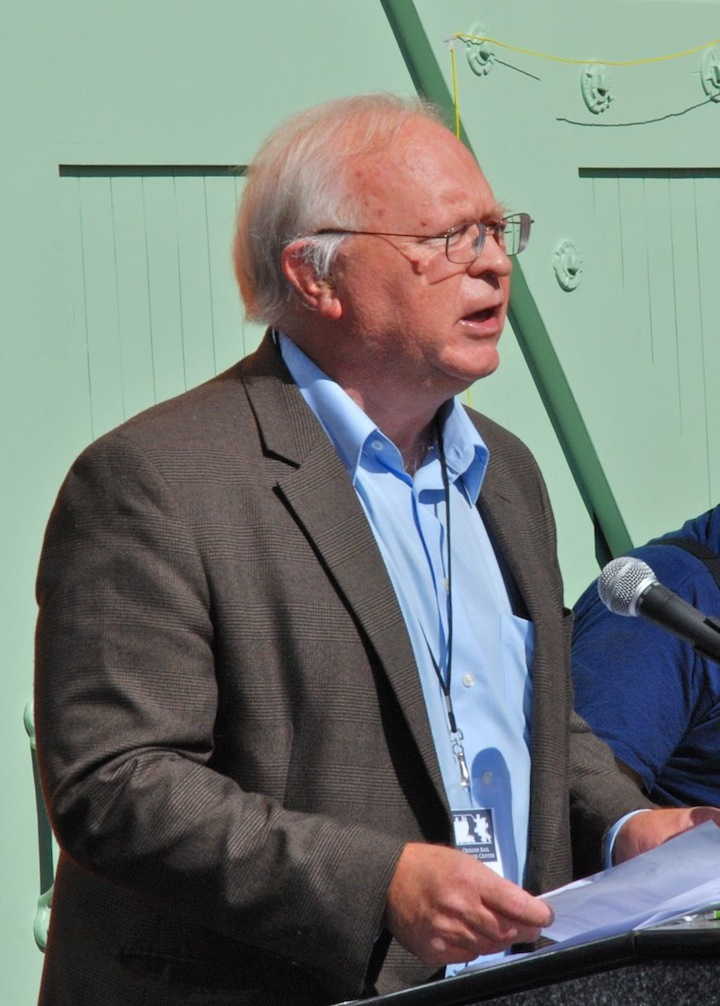 Former Portland city commissioner Mike Lindberg speaking at the opening ceremony of the Oregon Rail Heritage Center, in September 2012.